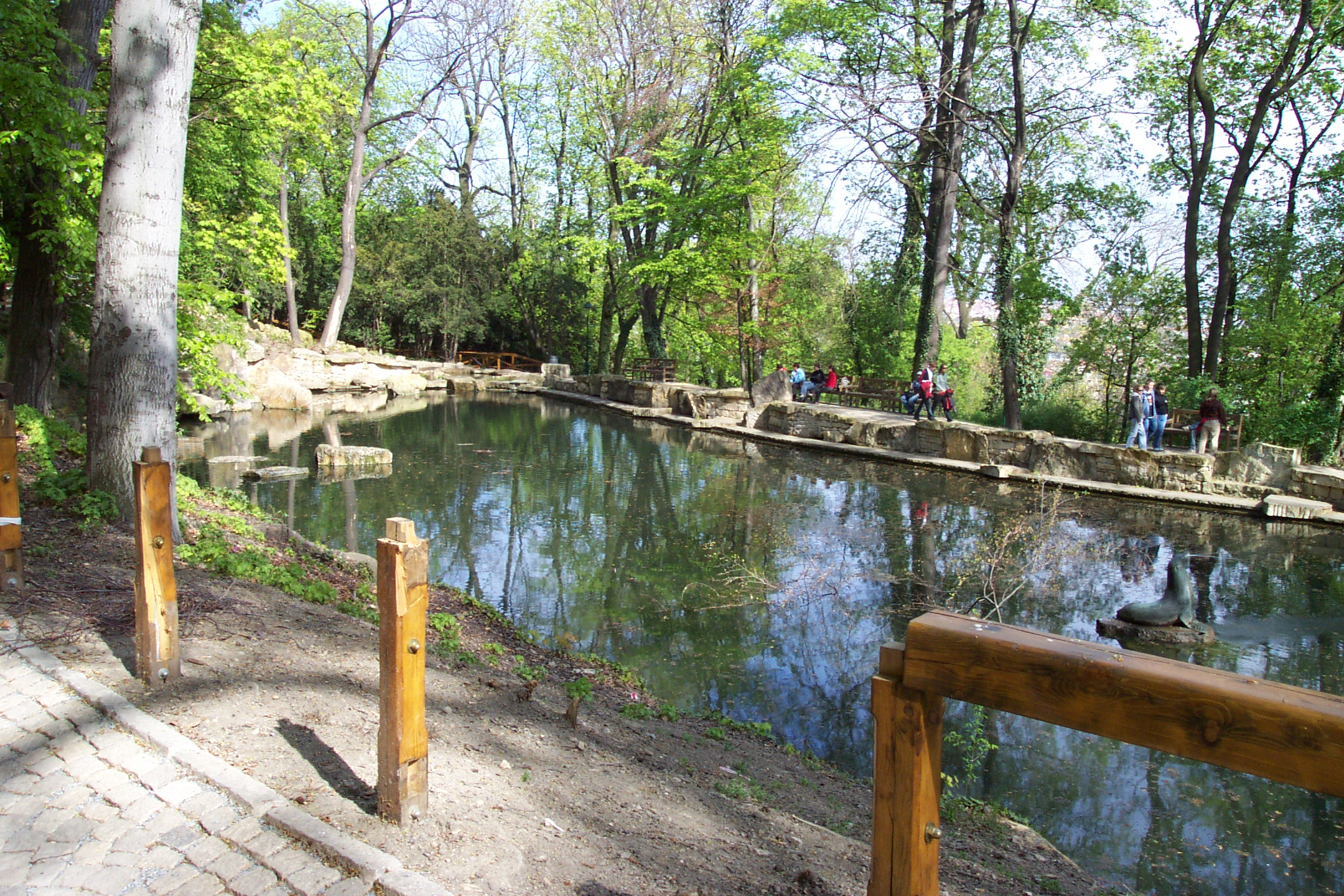 Prague, Kinského zahrada garden, the lake